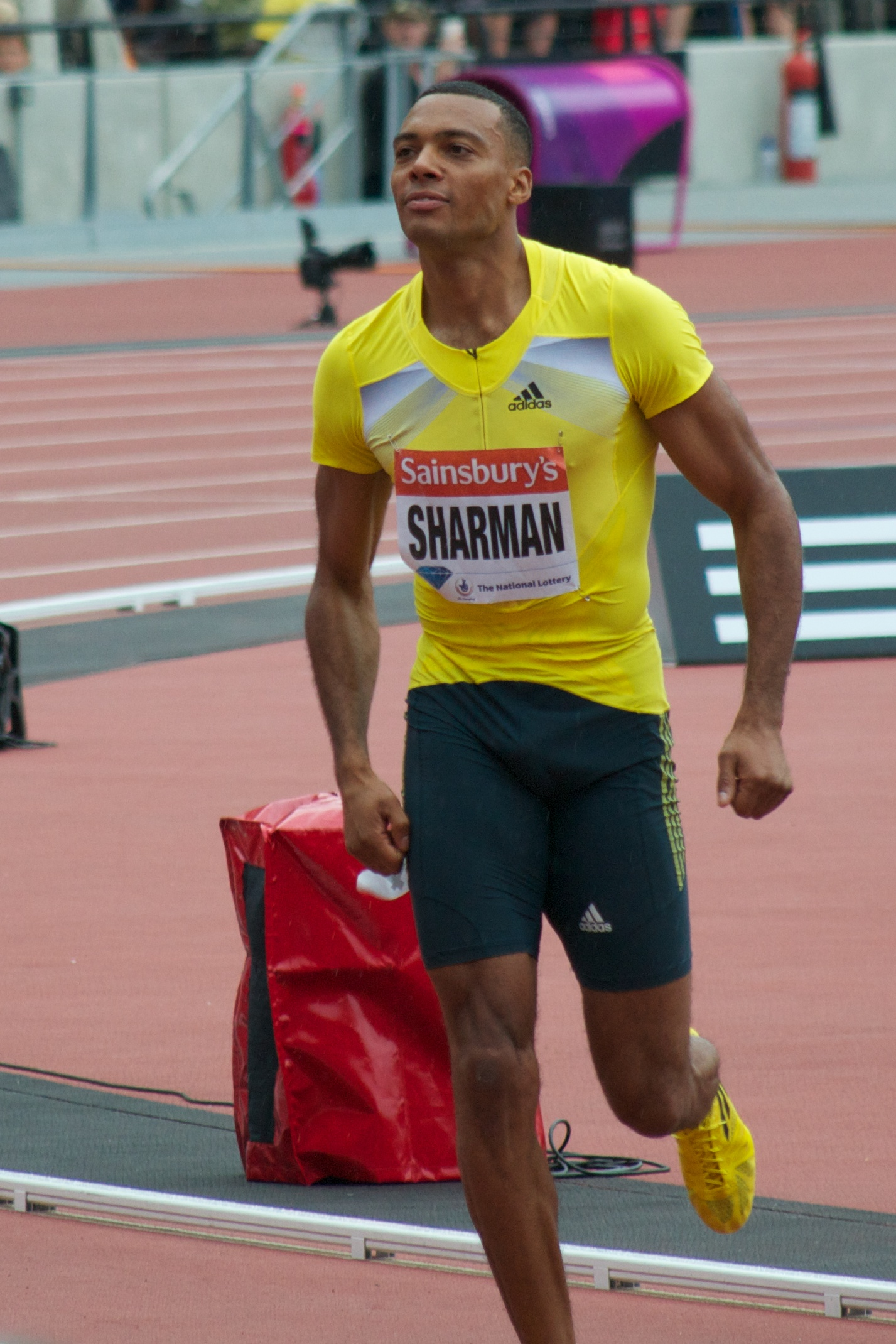 Sharman at the 2013 London Grand Prix, part of the Anniversary Games in the Olympic Stadium.